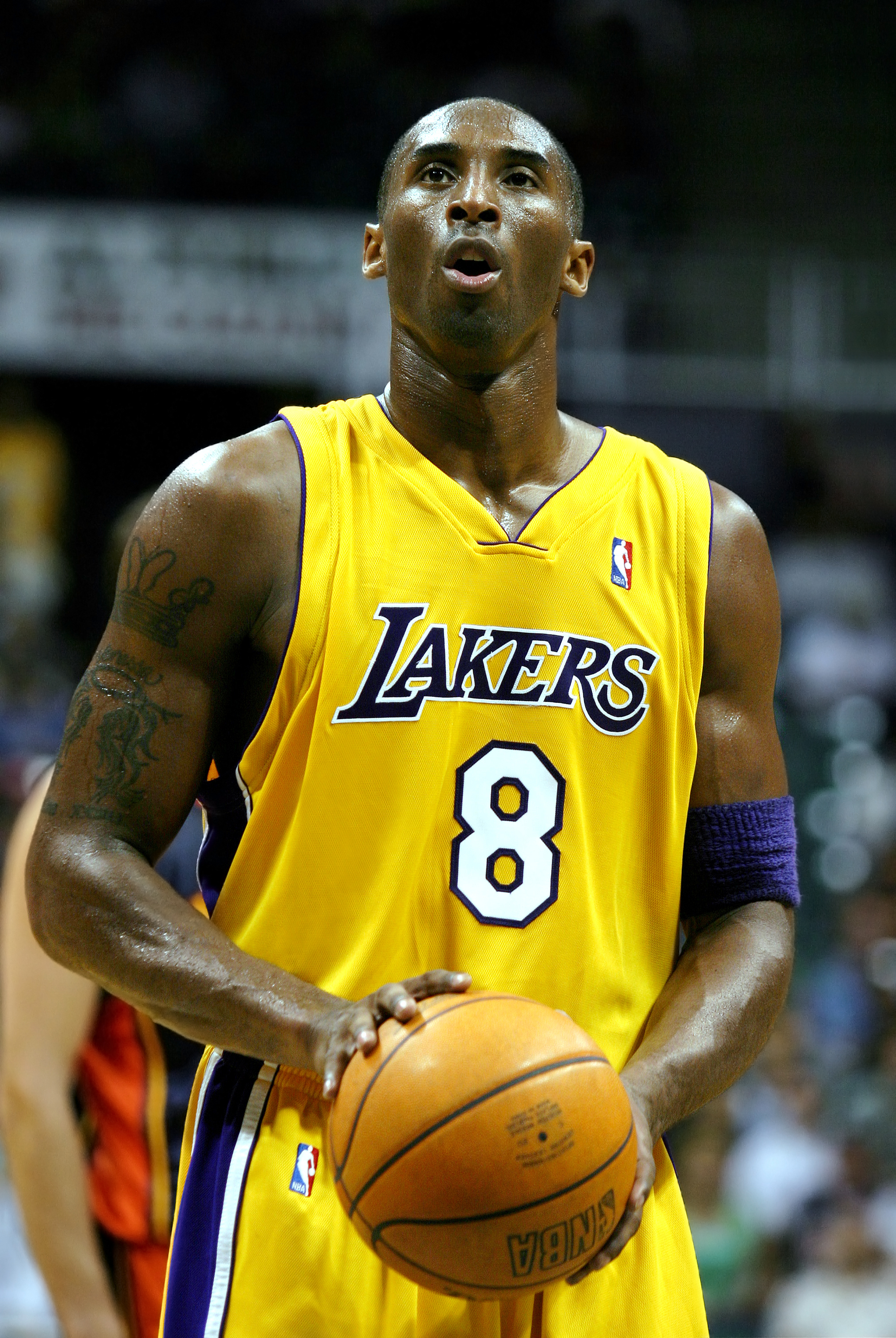 Kobe Bryant, Lakers shooting guard, stands ready to shoot a free throw during Tuesday nights pre-season game against the Golden State Warriors. Bryant was essential in bringing together a large point gap late in the second quarter, after the Warriors took the early lead.